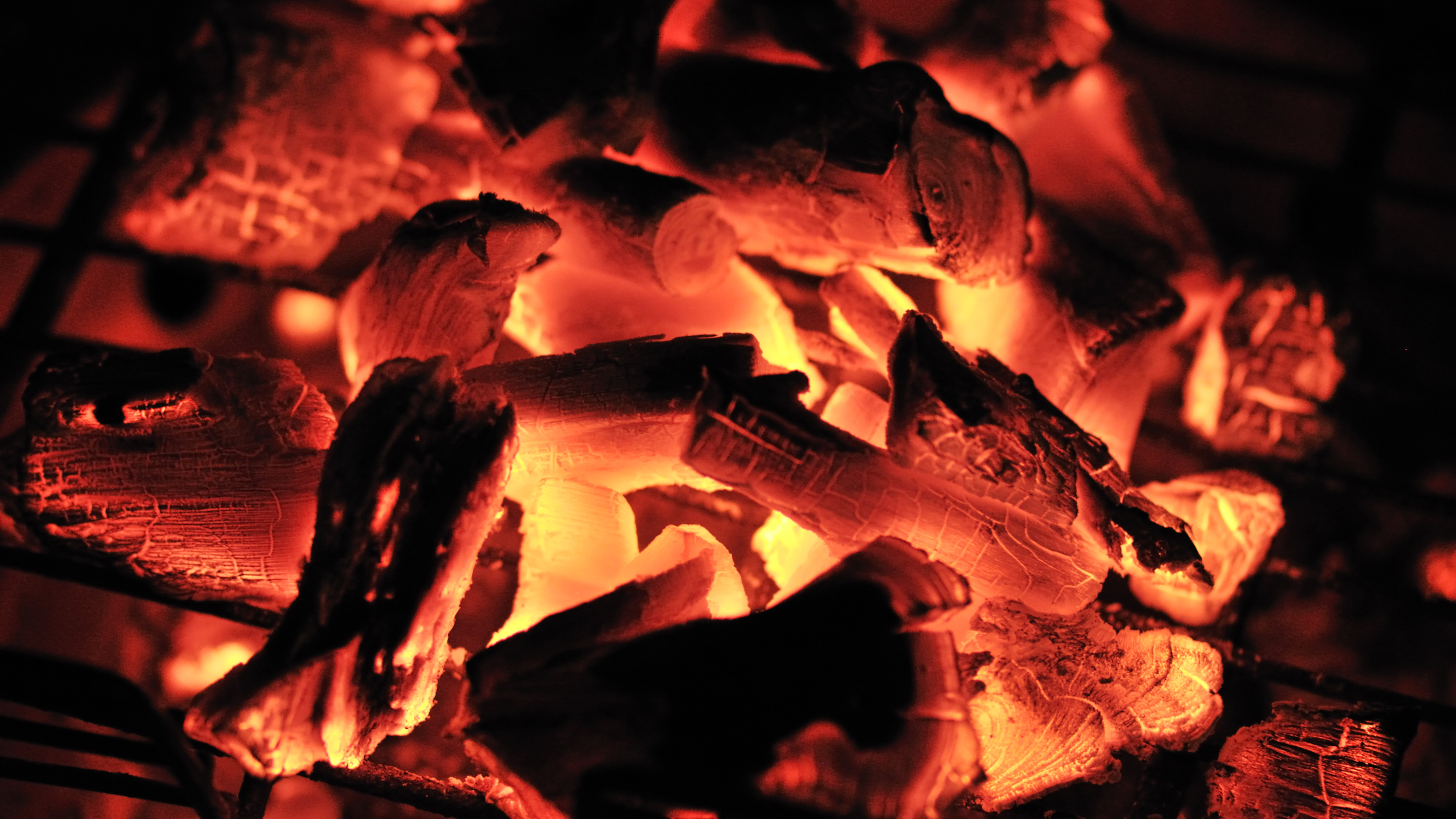 getting to like this 105mm lens. charcoal burning in preparation of a hooka.